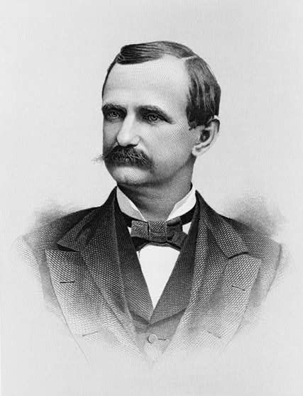 Congressman Leonidas Campbell Houk, a representative from Tennessee.